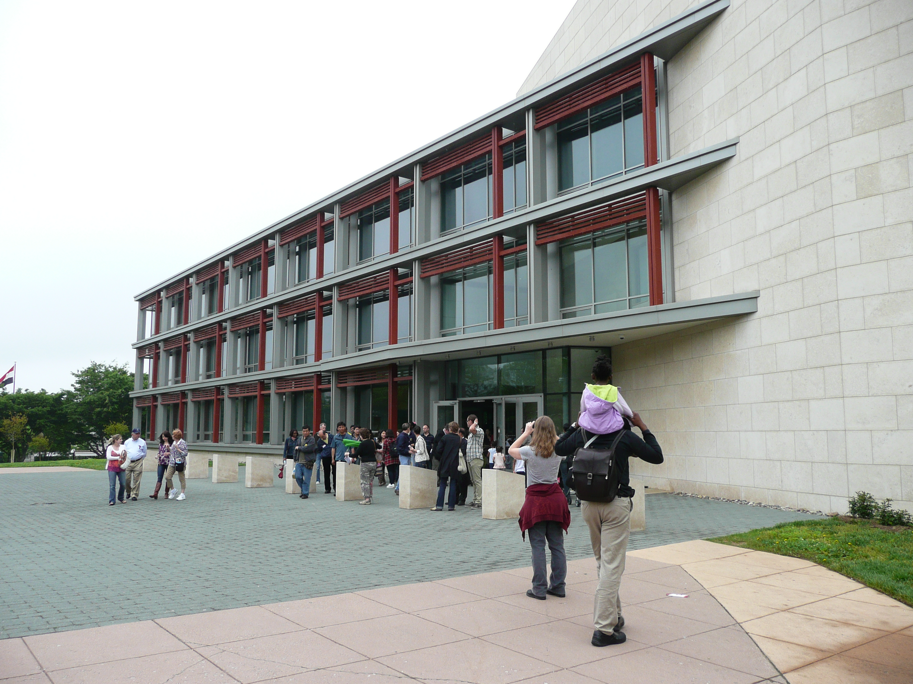 Exterior of Nigerian Embassy, Washington, DC. Photo from Wikis Take Embassies, 2011.